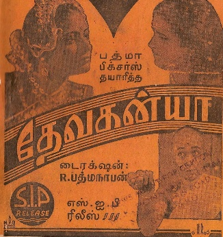 Poster for the 1943 Tamil film Deva Kanya